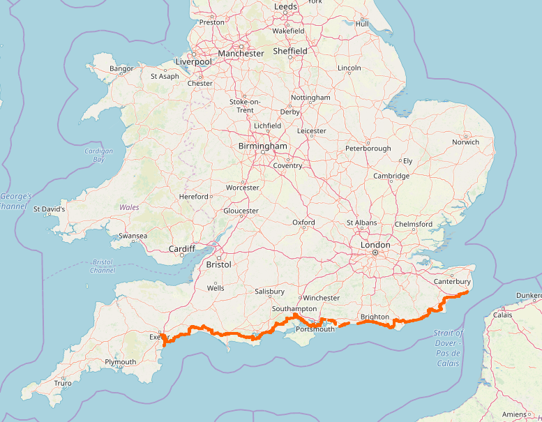 It is a map, showing the south of the UK, with highlighted in red the national cycle route 2, this cycle route follows the south coast of England from Dover till Dawlish (close to Exeter).